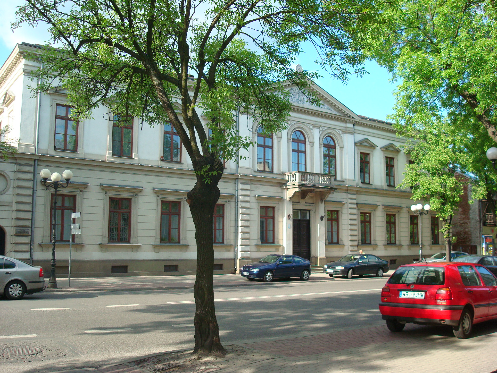 Building of episcopal electoral group in Siedlce